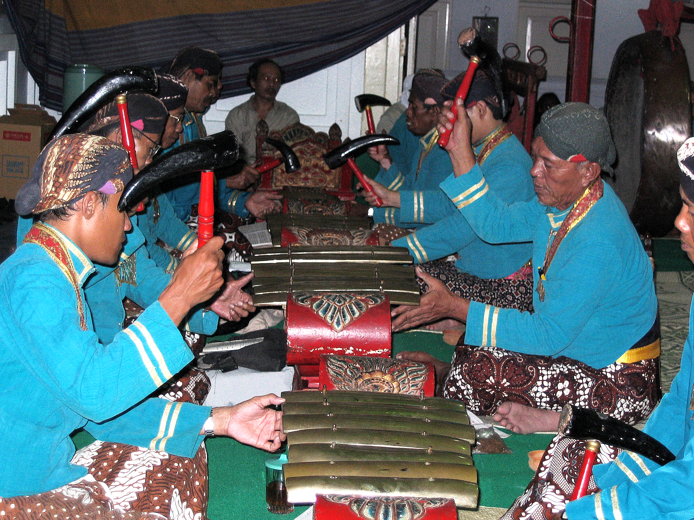 Sarons_of_Gamelan_Sekati,_Yogyakarta.jpg own work 2004 Giovanni Sciarrino